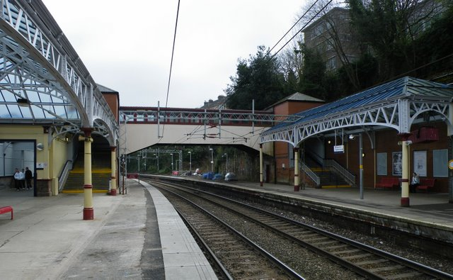 Port Glasgow railway station Work is currently under way to replace the platforms. The new edge on the Glasgow bound platform can be seen in the foreground.